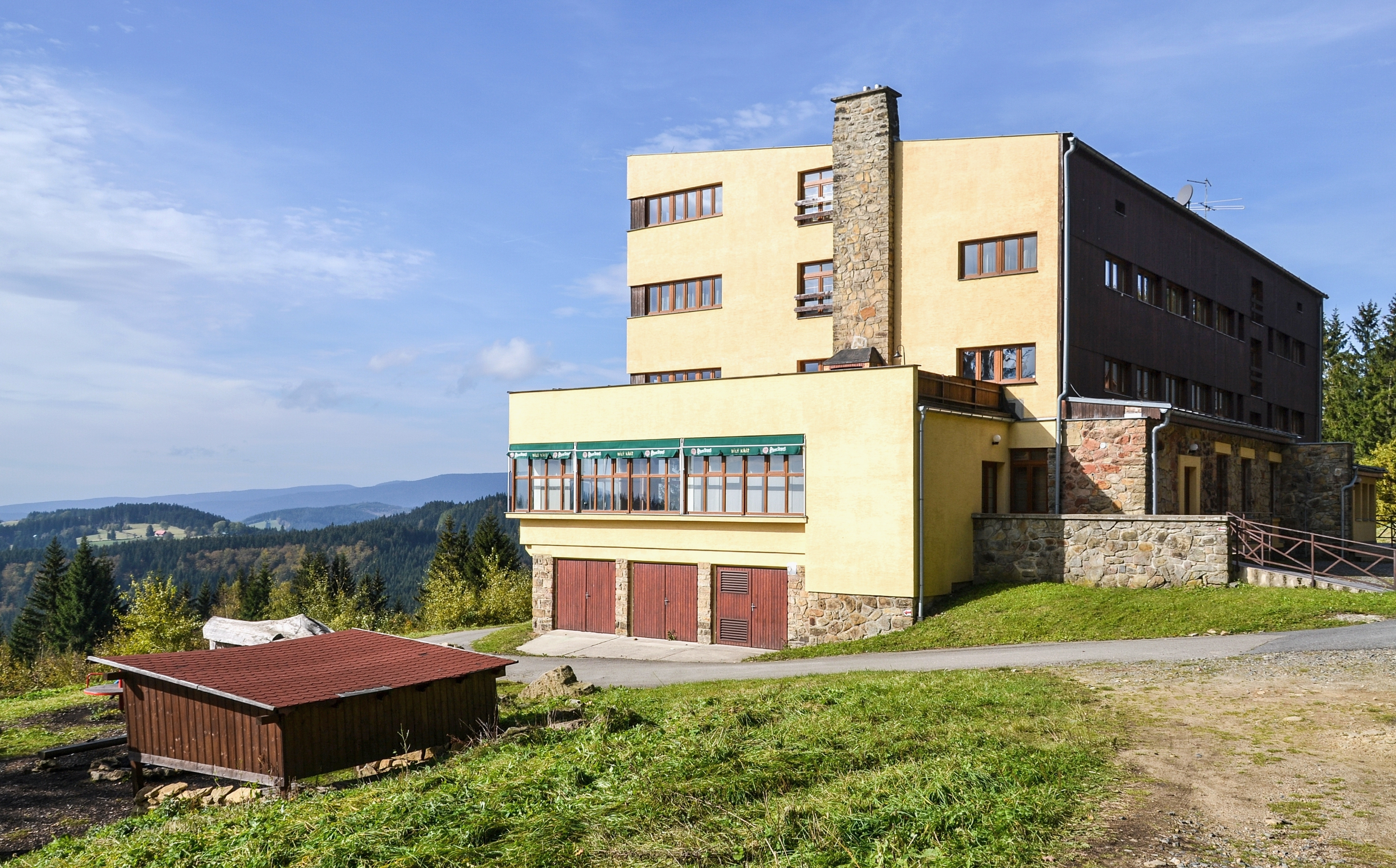 Bílý Kříž (Weisses Kreuz), Czech Republic, Moravian-Silesian Beskids mountains. Former "Berghotel", built in 1937 by "Beskidenverein"